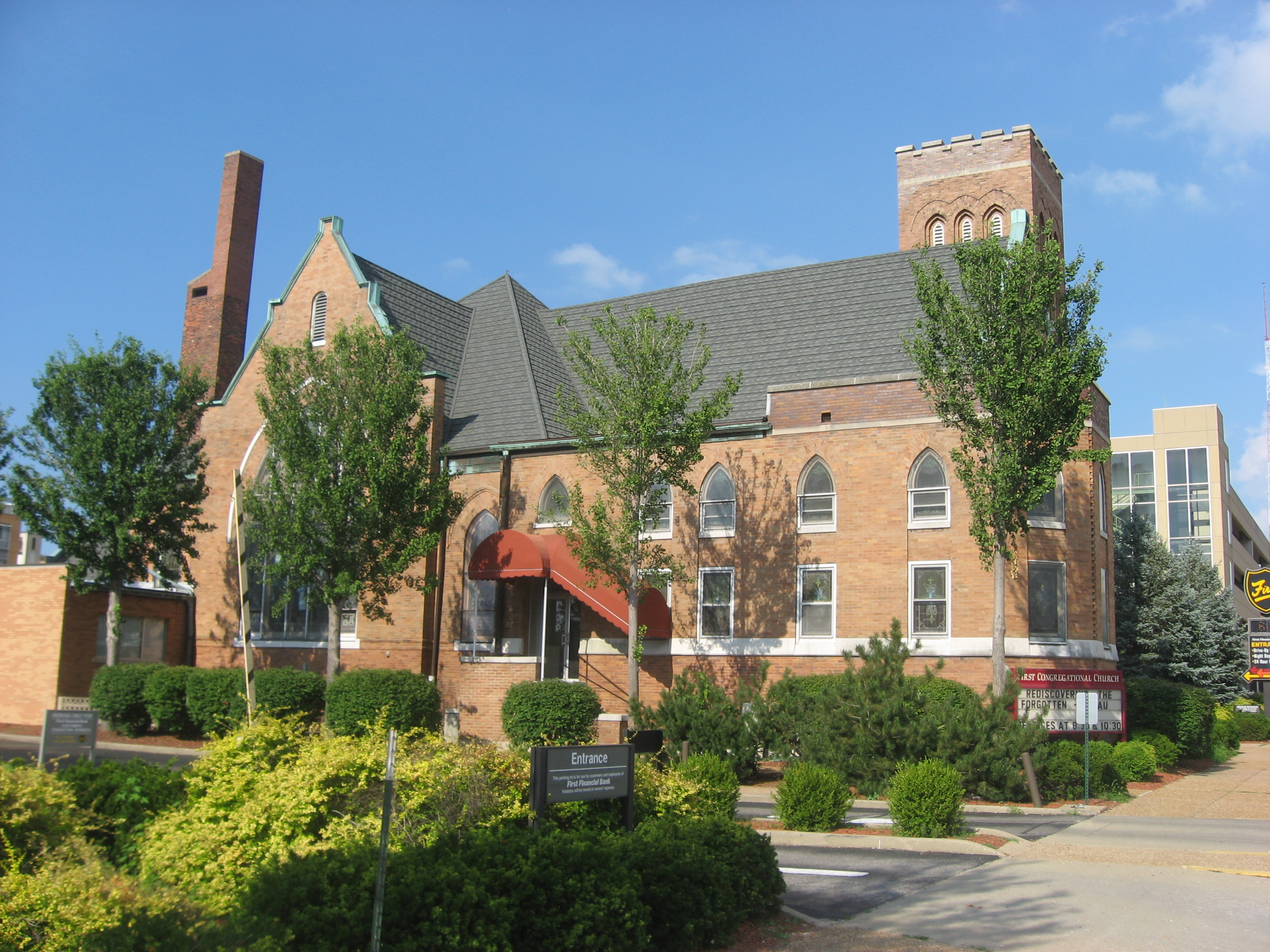 Western side of First Congregational Church, located at 630 Ohio Street in Terre Haute, Indiana, United States. Built in 1902, it is listed on the National Register of Historic Places.